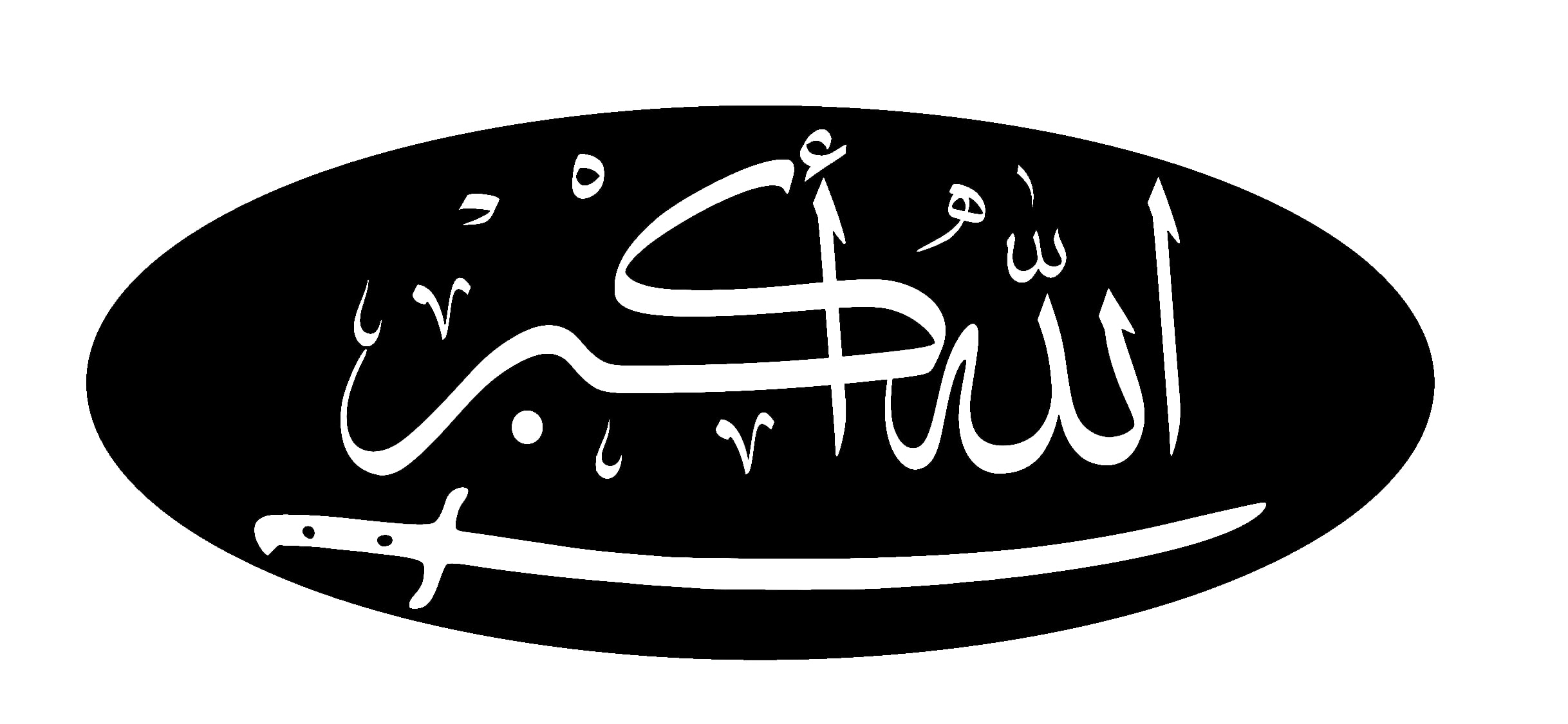 Coat of arms of Caucasus Emirate.